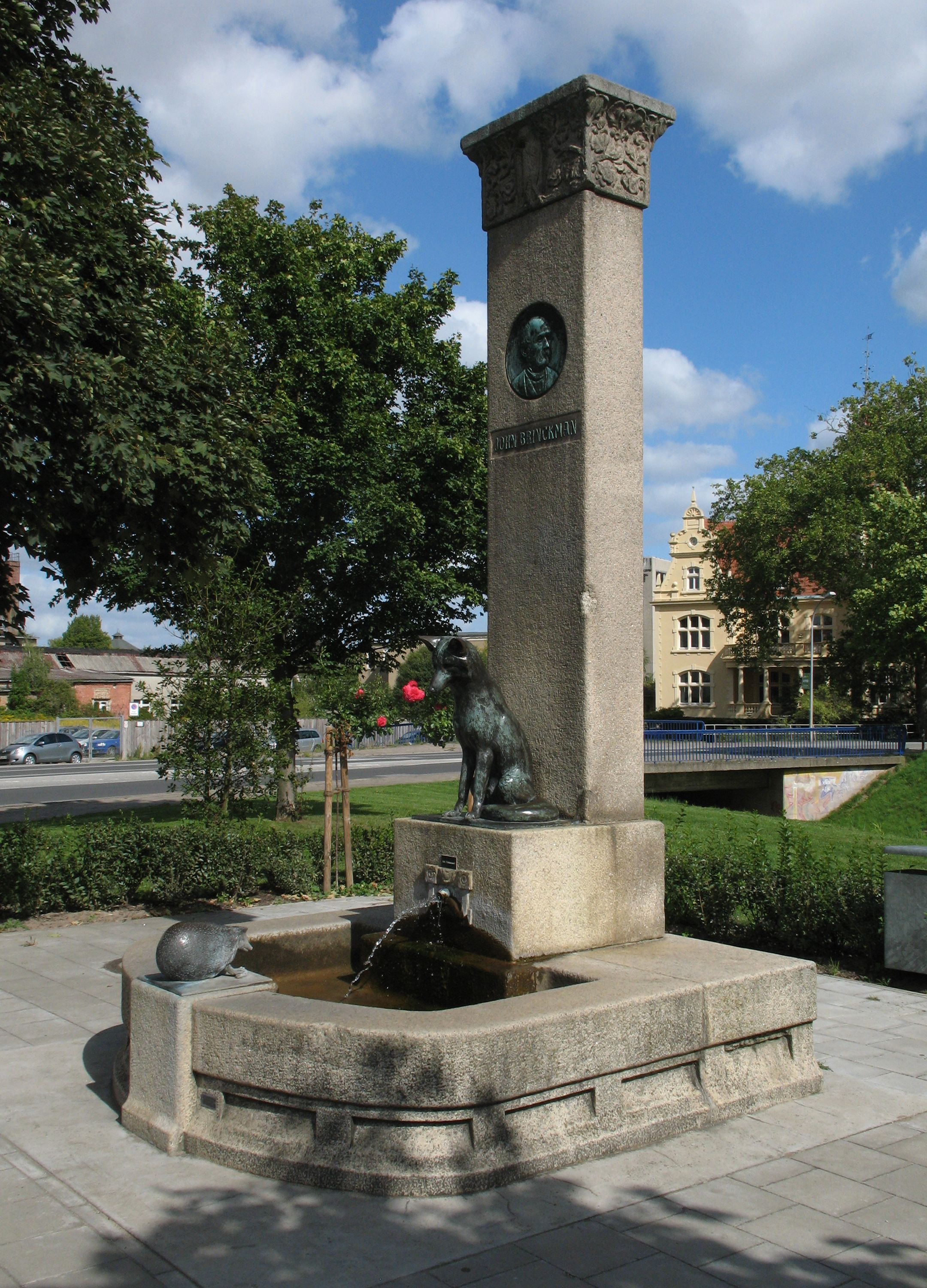 Fountain "fox and hedgehog" in Güstrow in Mecklenburg-Western Pomerania, Germany